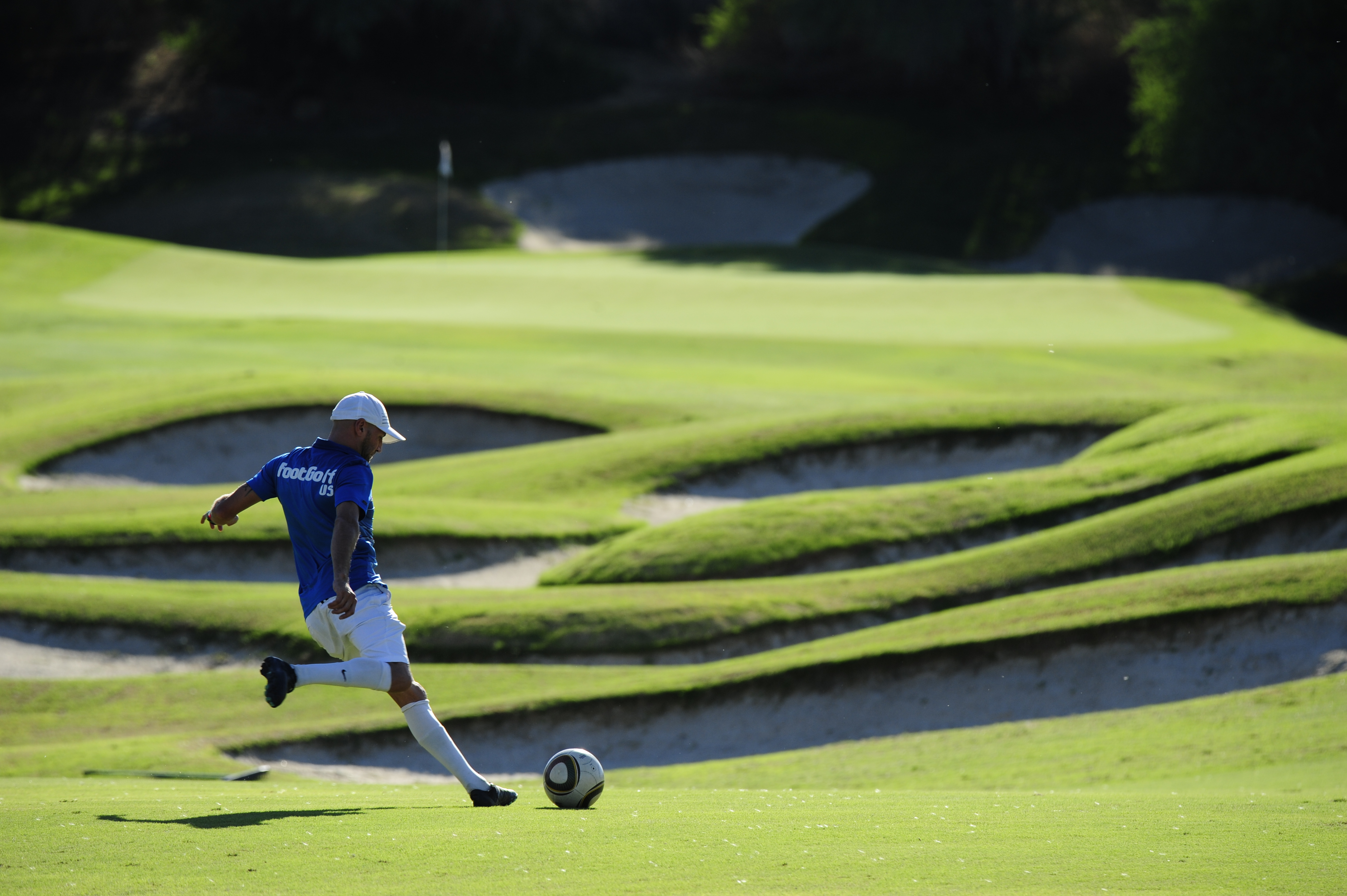 Images of the American FootGolf League, final day, at the Desert Willow Golf Resort in Palm Desert, Ca., on Sunday, November 6, 2016.